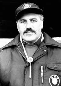 ERA president (1980–1985) and FIA ORC member Boris Rung (1928–2003; Finland) pictured in 1982